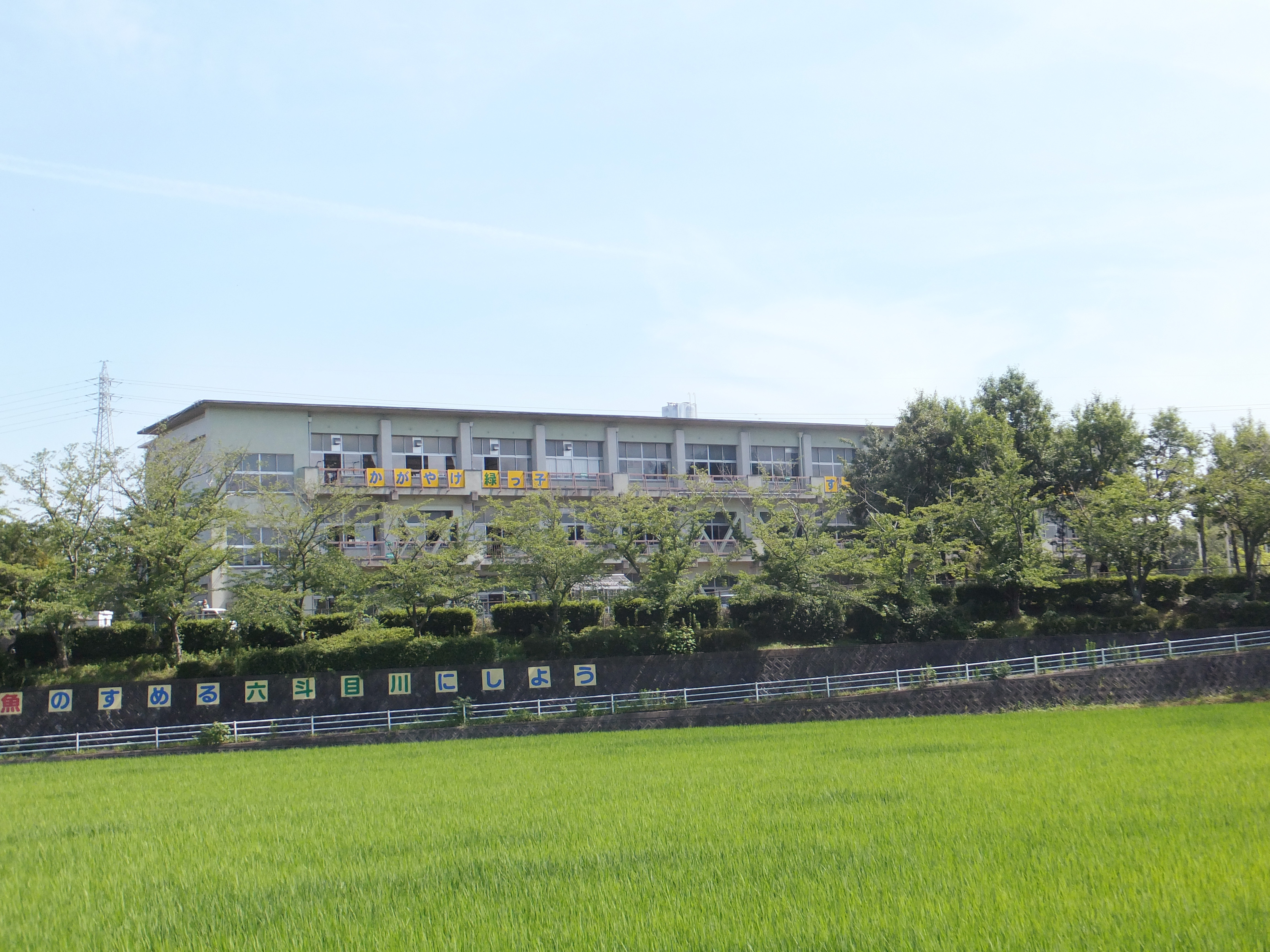 Aichi Prefectural Okazaki Higashi High School (岡崎市立緑丘小学校), located at 12 Sawatari, Miai-cho, Okazaki, Aichi, Japan